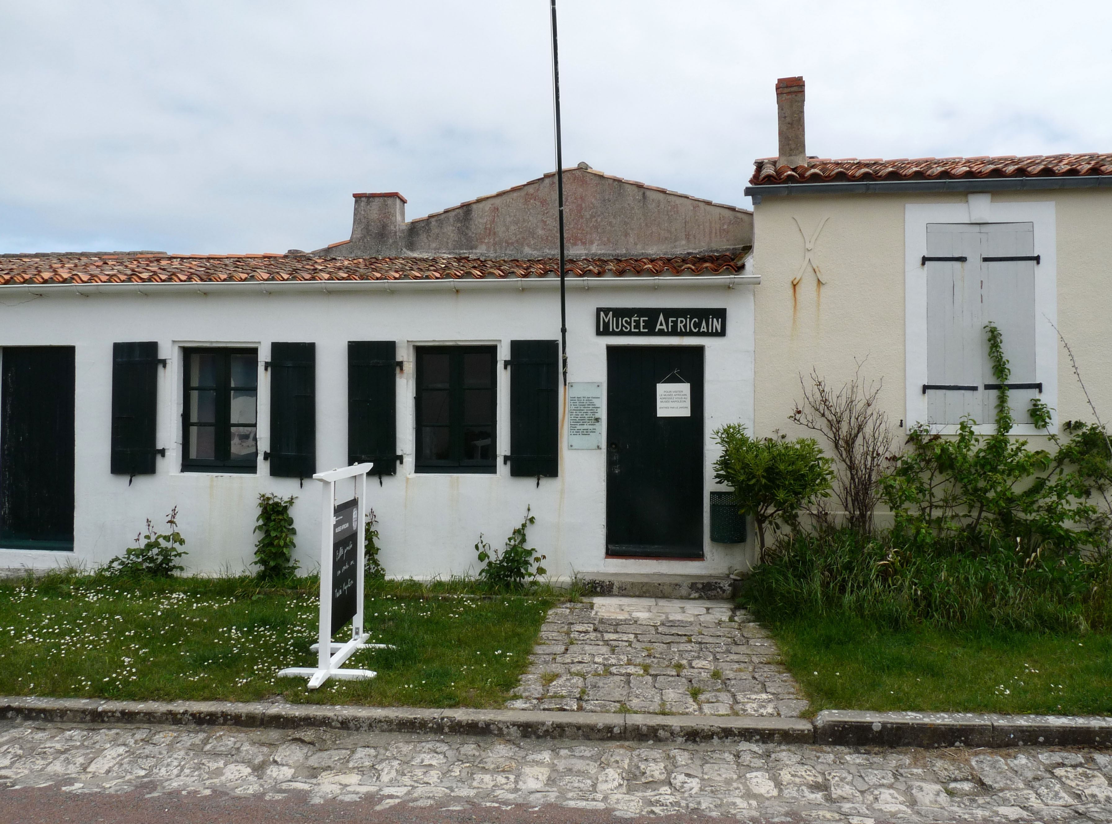 Musée africain, Ile d'Aix